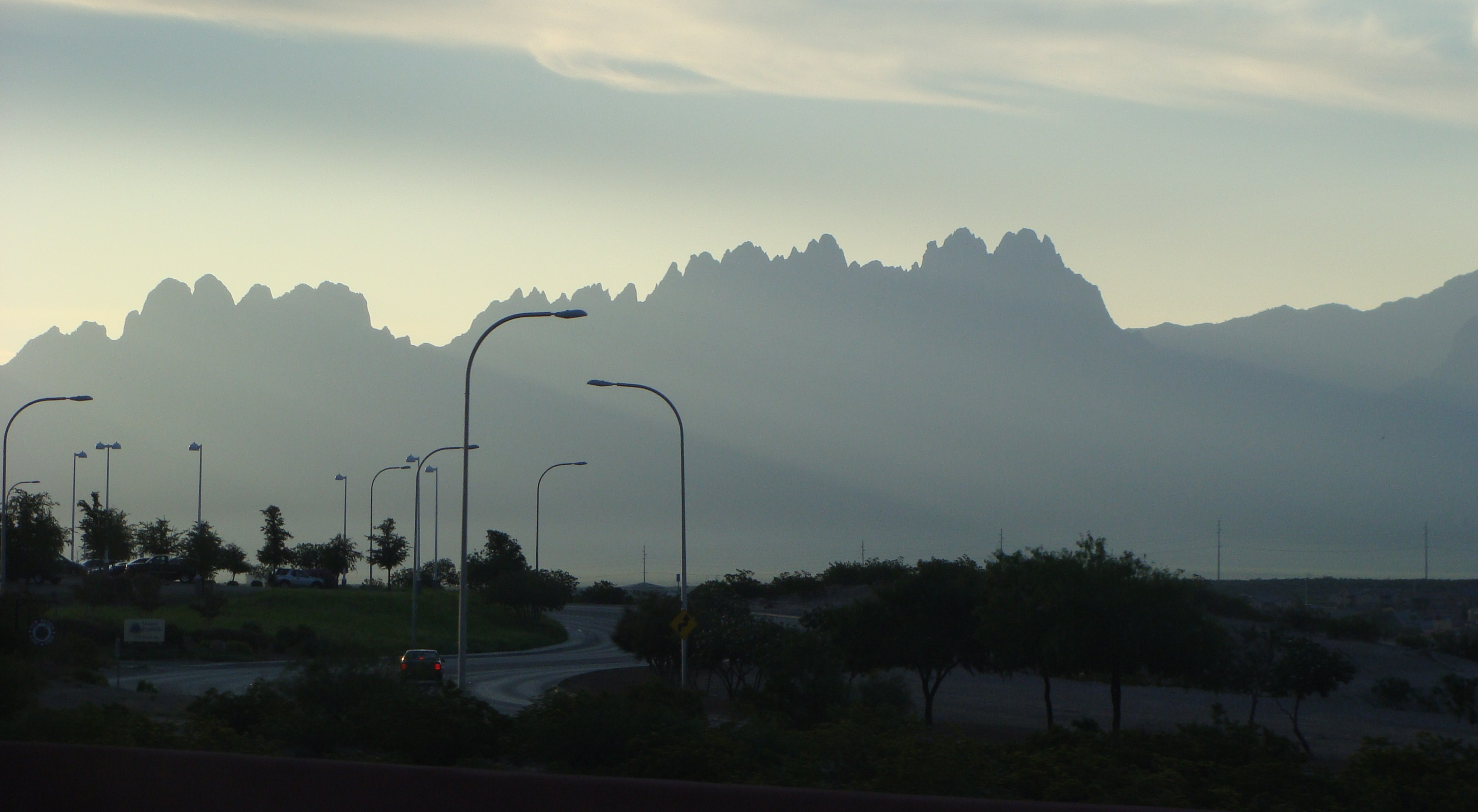 Organ Mountains Near Del Rey Blvd